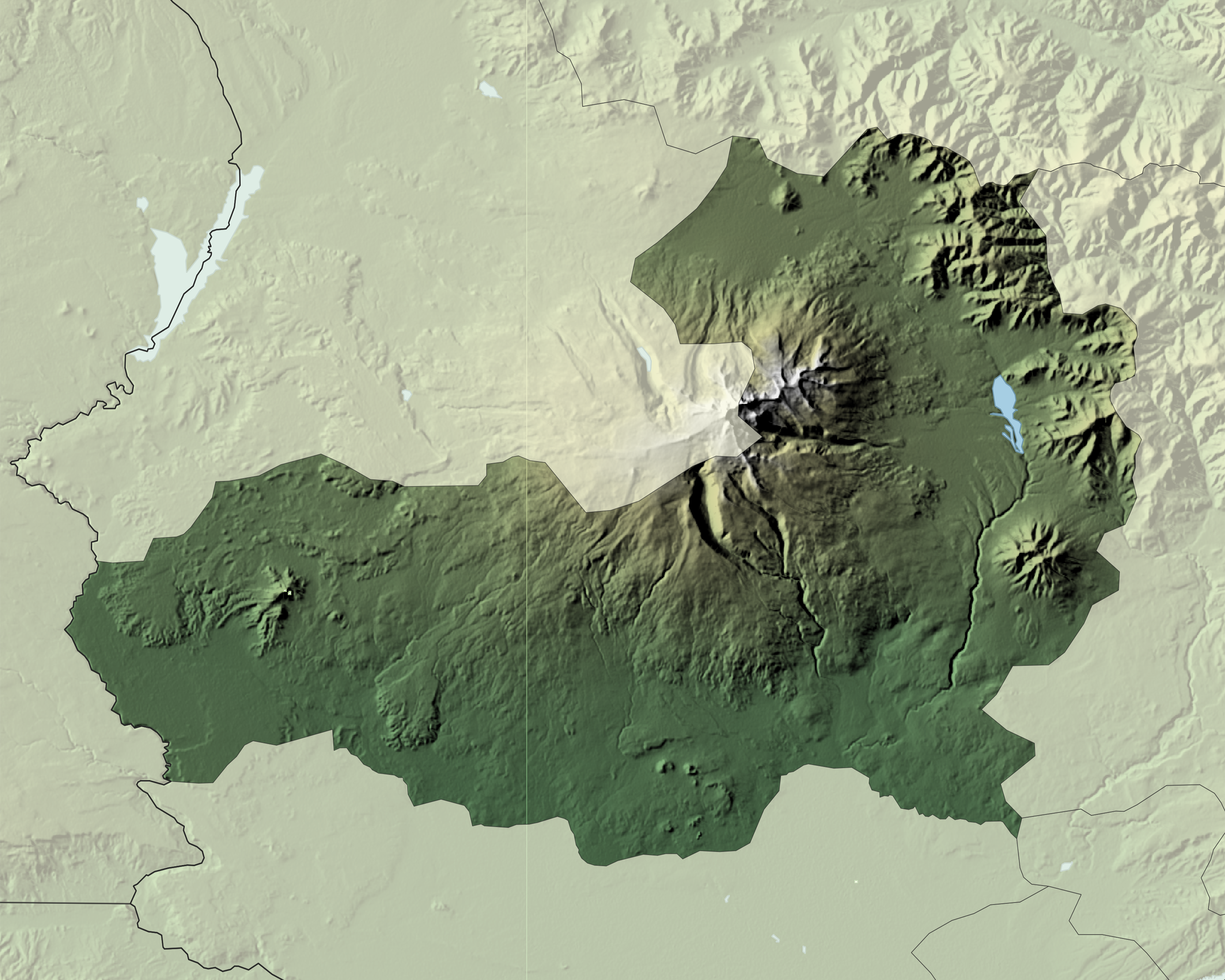 Hillshaded map of Aragatsotn province of Armenia